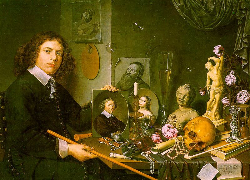 Self-Portrait with Vanitas Symbols